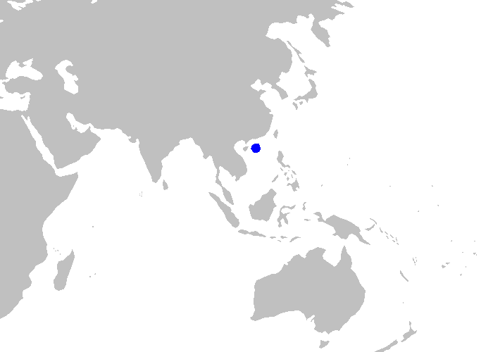 Distribution map for Apristurus gibbosus